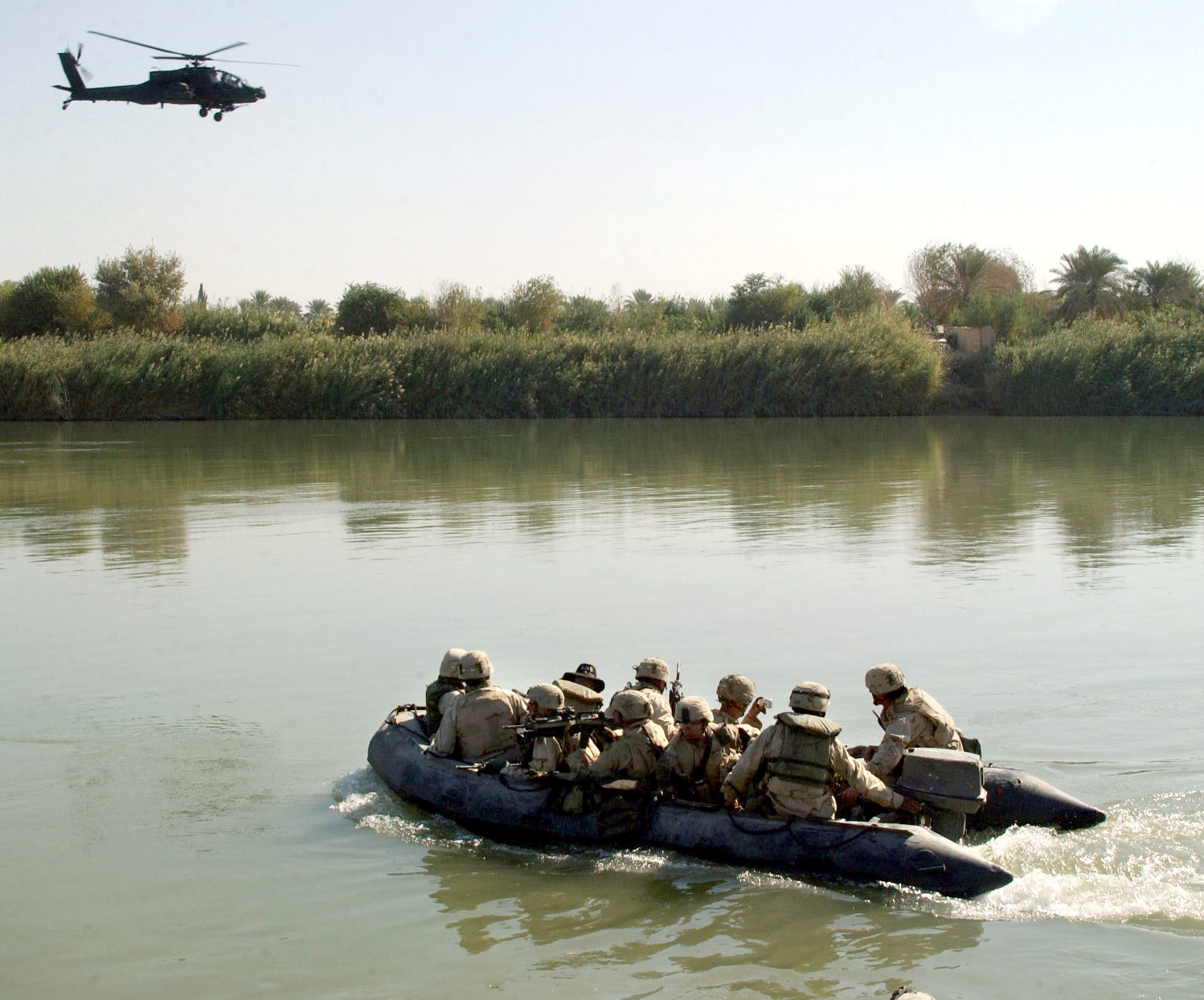 3-7 Cavalary, 3ID division soldiers on their way to one of the islands on tigris river for a search mission, 814th engineer company soldiers provided river crossing capabilities in support of combat operation, southeastern Baghdad, Iraq, 21 October, 2005